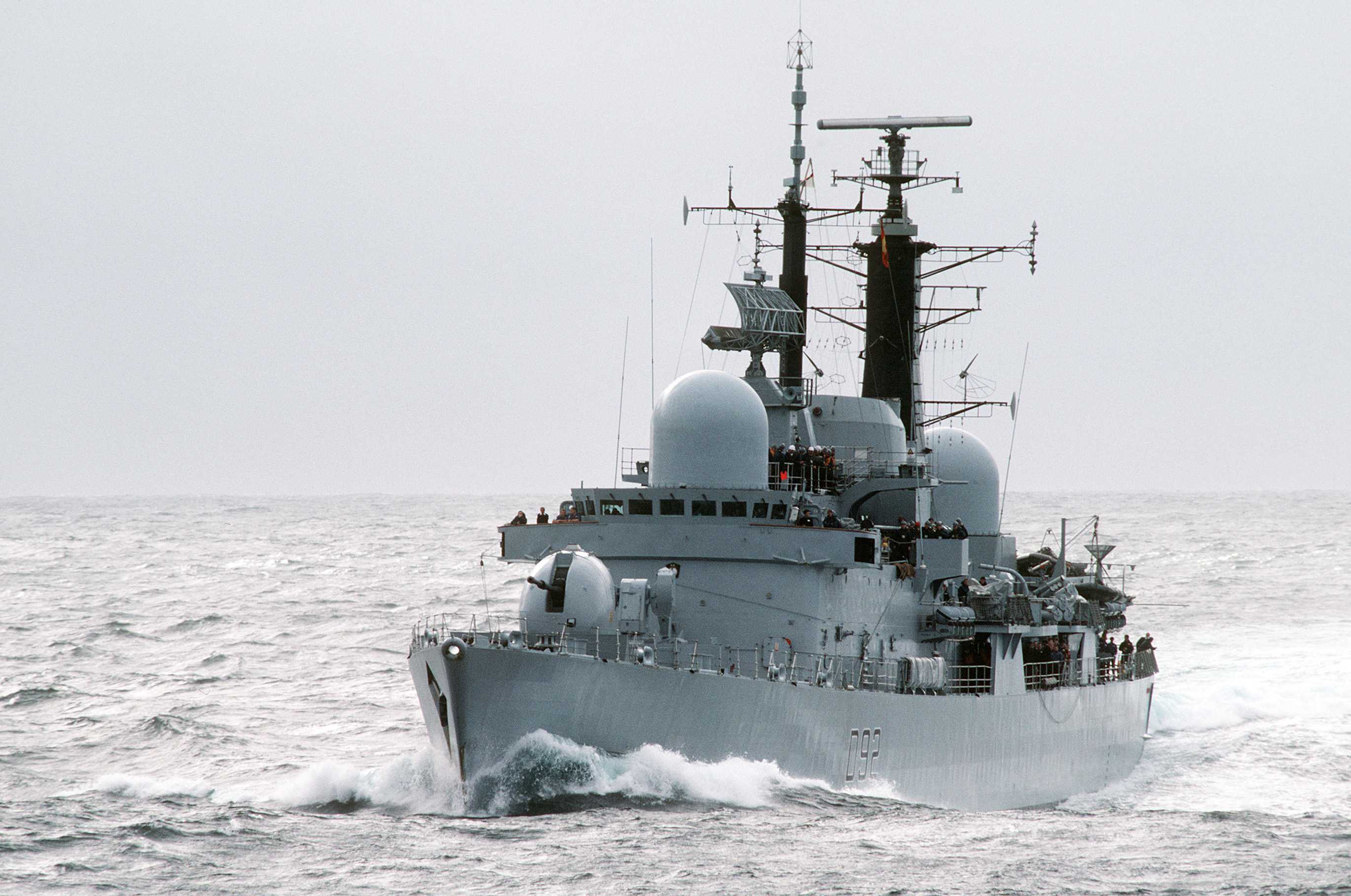 A port bow view of the British destroyer HMS Liverpool (D 92) underway during NATO Exercise NORTHERN WEDDING 86.